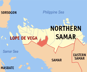 Map of Northern Samar showing the location of Lope de Vega